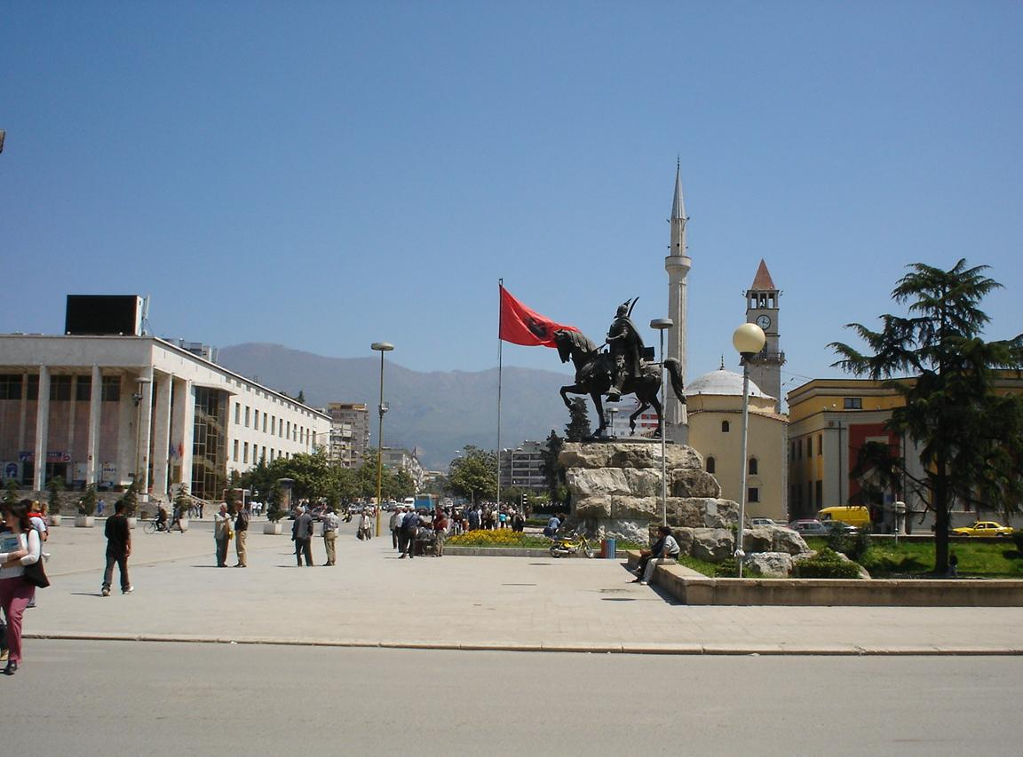 Skanderbeg Location: Tirana, Albania